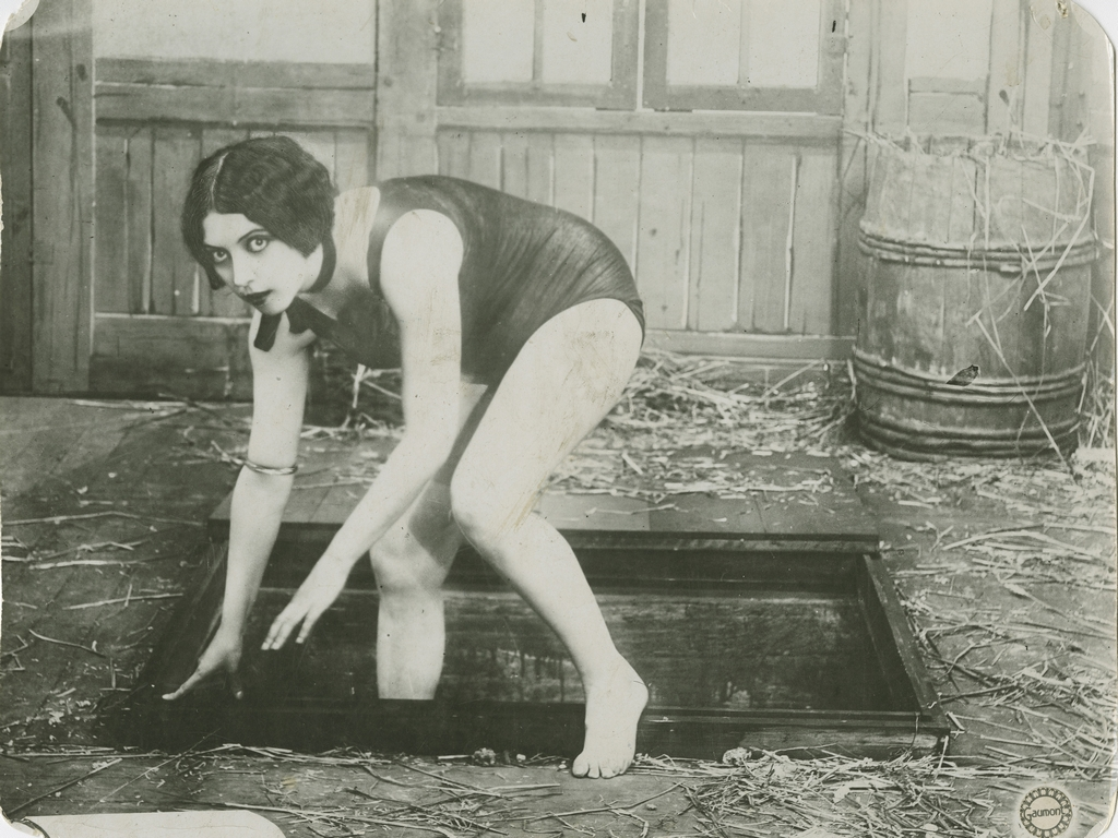 Musidora in a scene from the film Judex